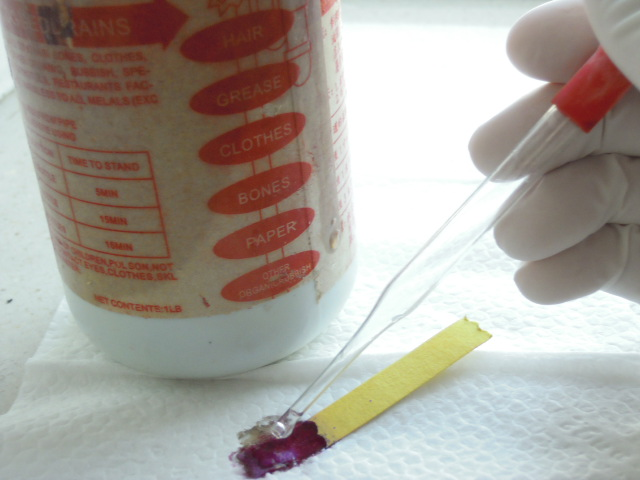 Drops of an acidic drain cleaner containing sulfuric acid (sulphuric acid) turn a pH paper red and char it instantly. This demonstrates its strong acidic nature and dehydrating property.